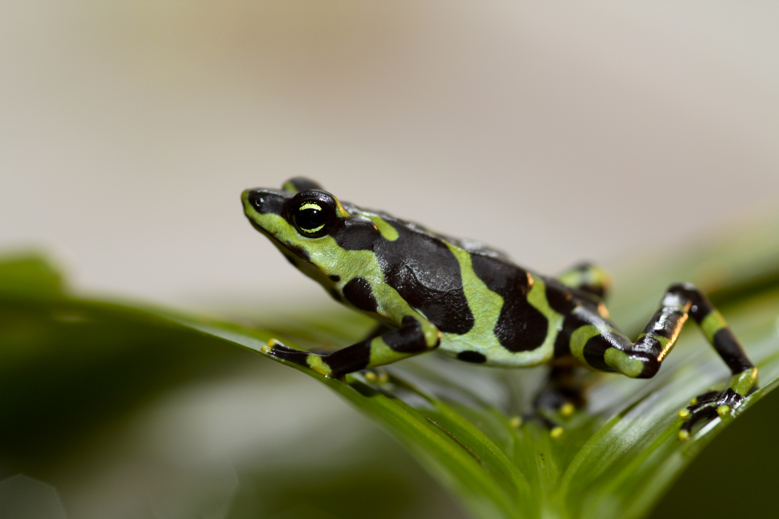 Atelopus limosus male, highland color form